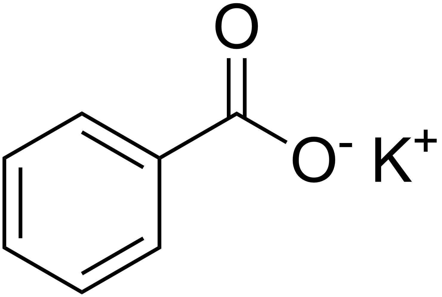 chemical structure of potassium benzoate